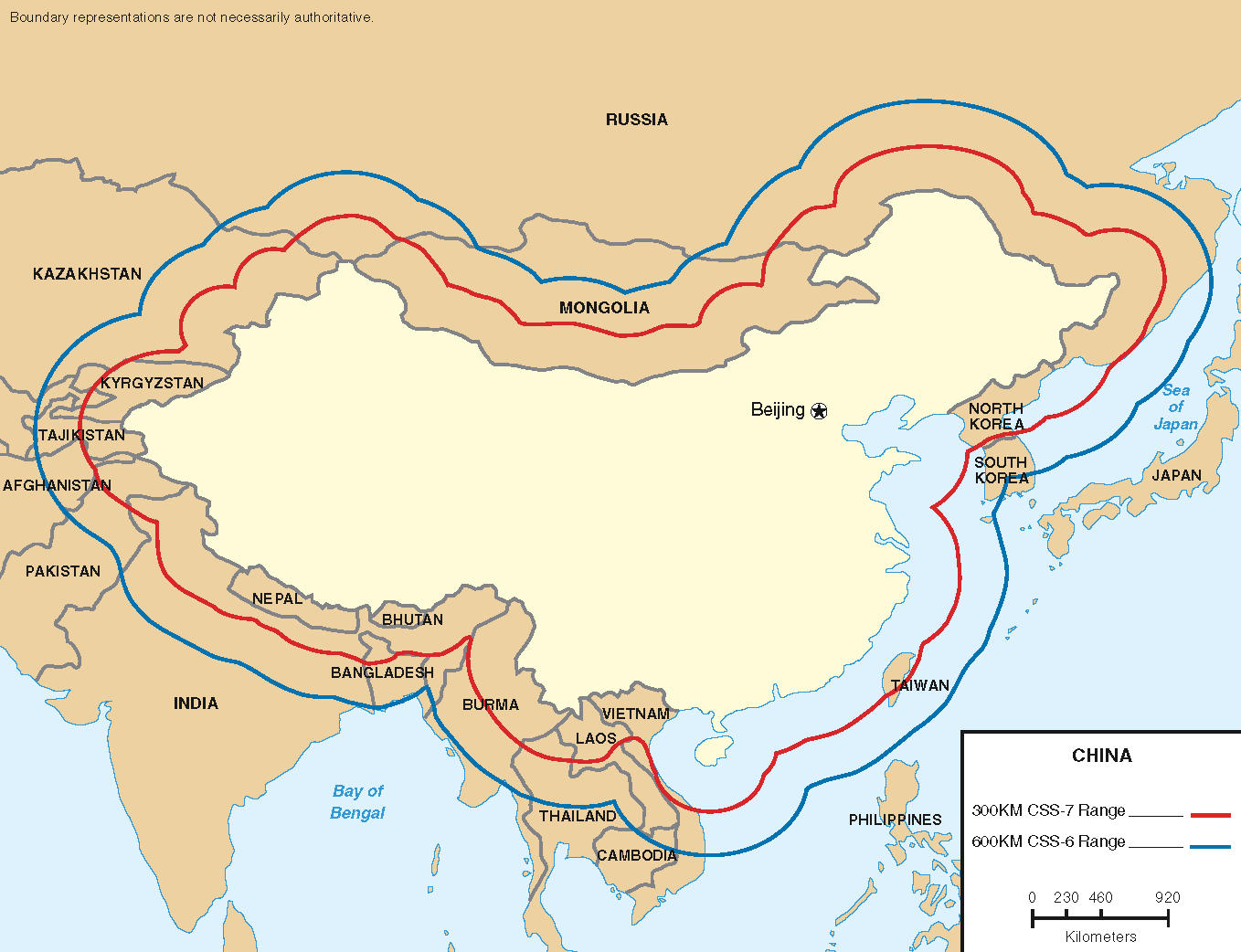 Figure 1. Maximum Ranges for China’s Conventional SRBM Force. Note: China currently is capable of deploying ballistic missile forces to support a variety of regional contingencies.